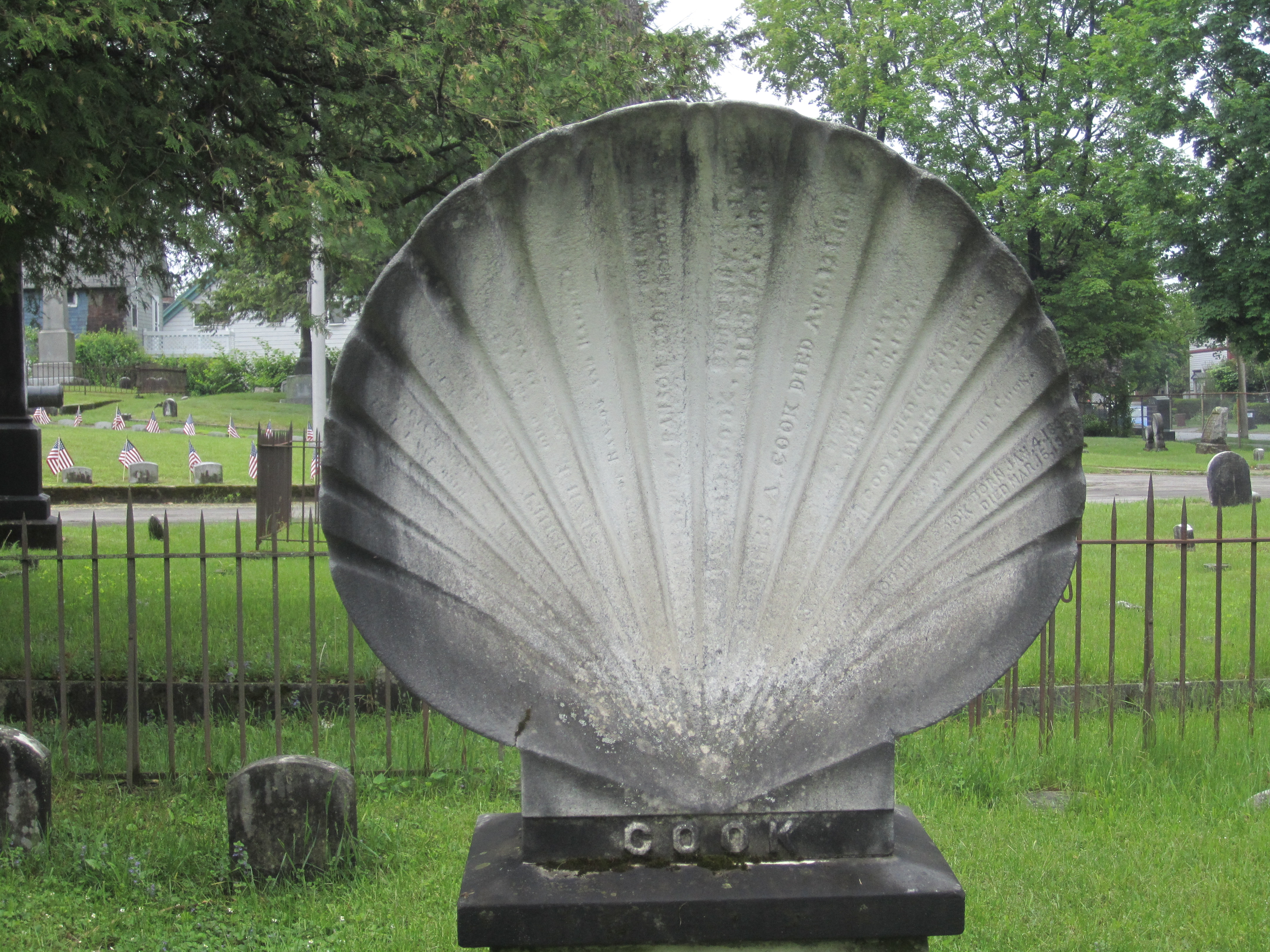 Cook family monument, Greenridge Cemetery, Saratoga Springs, NY, designed by Ransom Cook.